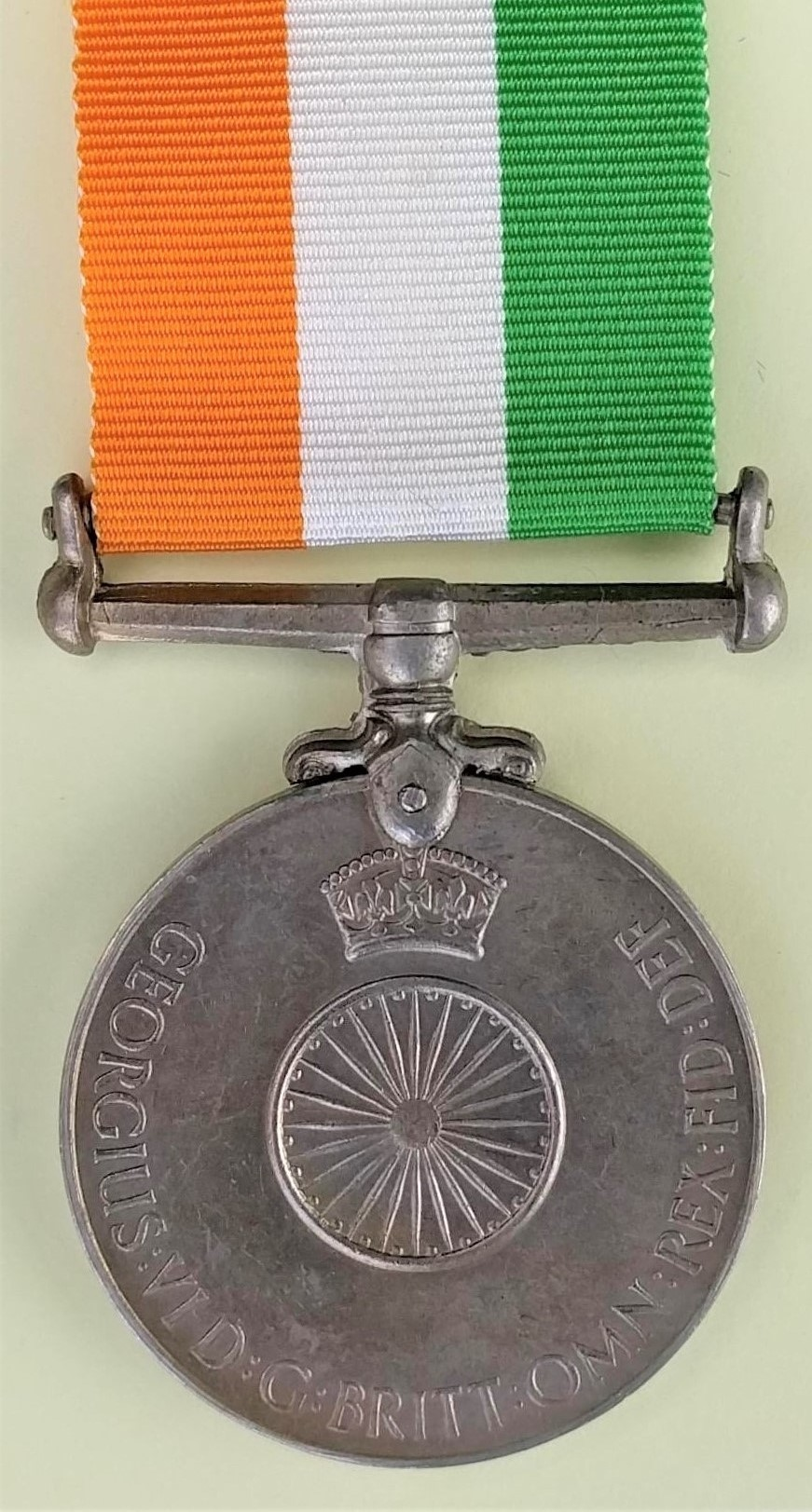 Indian medal awarded to commemorate independence in 1947. Named toː 21478 Sep. Basant Singh, Grs